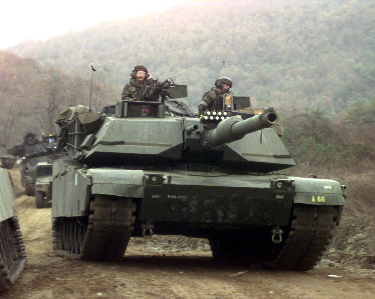 A group of M1A1s enter the Twin Bridges training area prepared for a mock battle in the Republic of Korea. The M1A1s come from the Task Force, 1st Battalion, 23rd Infantry Division out of Ft. Lewis, Wash. TF 123 is conducting an assault on two Infantry companies from a Republic of Korea armored brigade in participation of Foal Eagle '98. A combined exercise involving the Republic of Korea Army and the United States Armed Forces. (Released to Public)